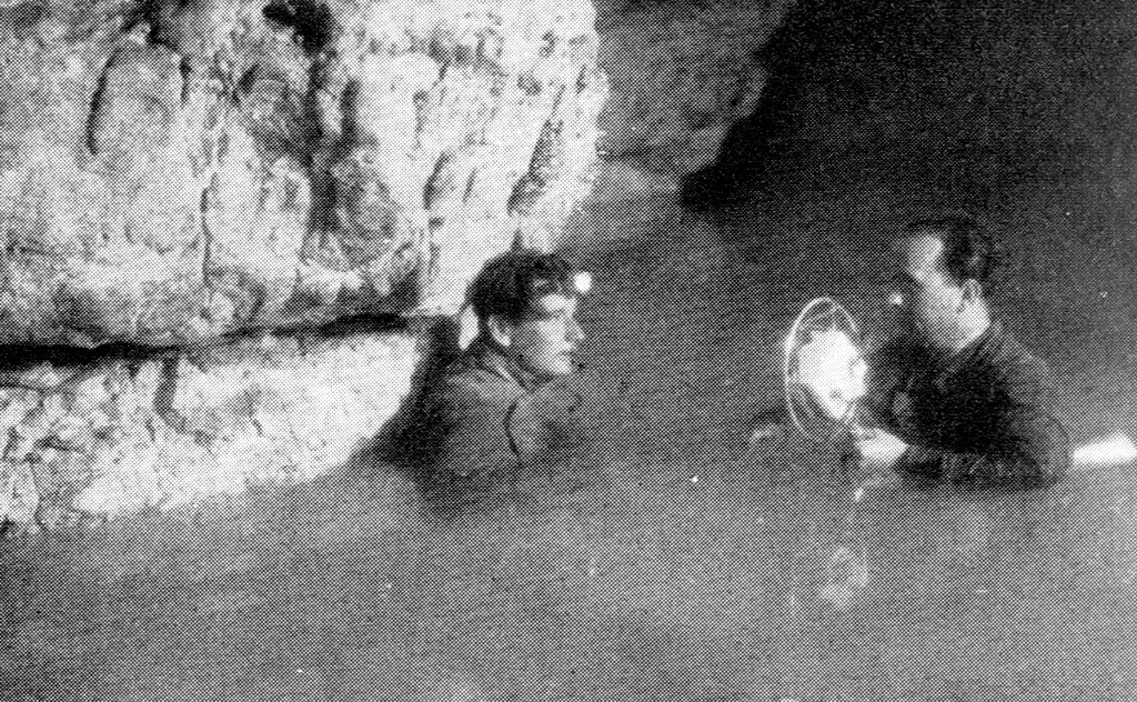 Radio interview with Hubert Kessler from Tapolca Lake Cave